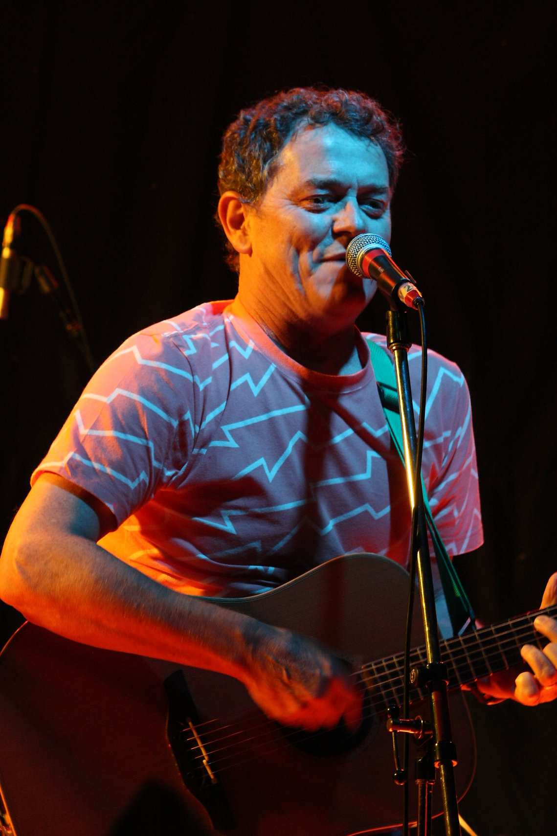 Photo taken by me at a gig.